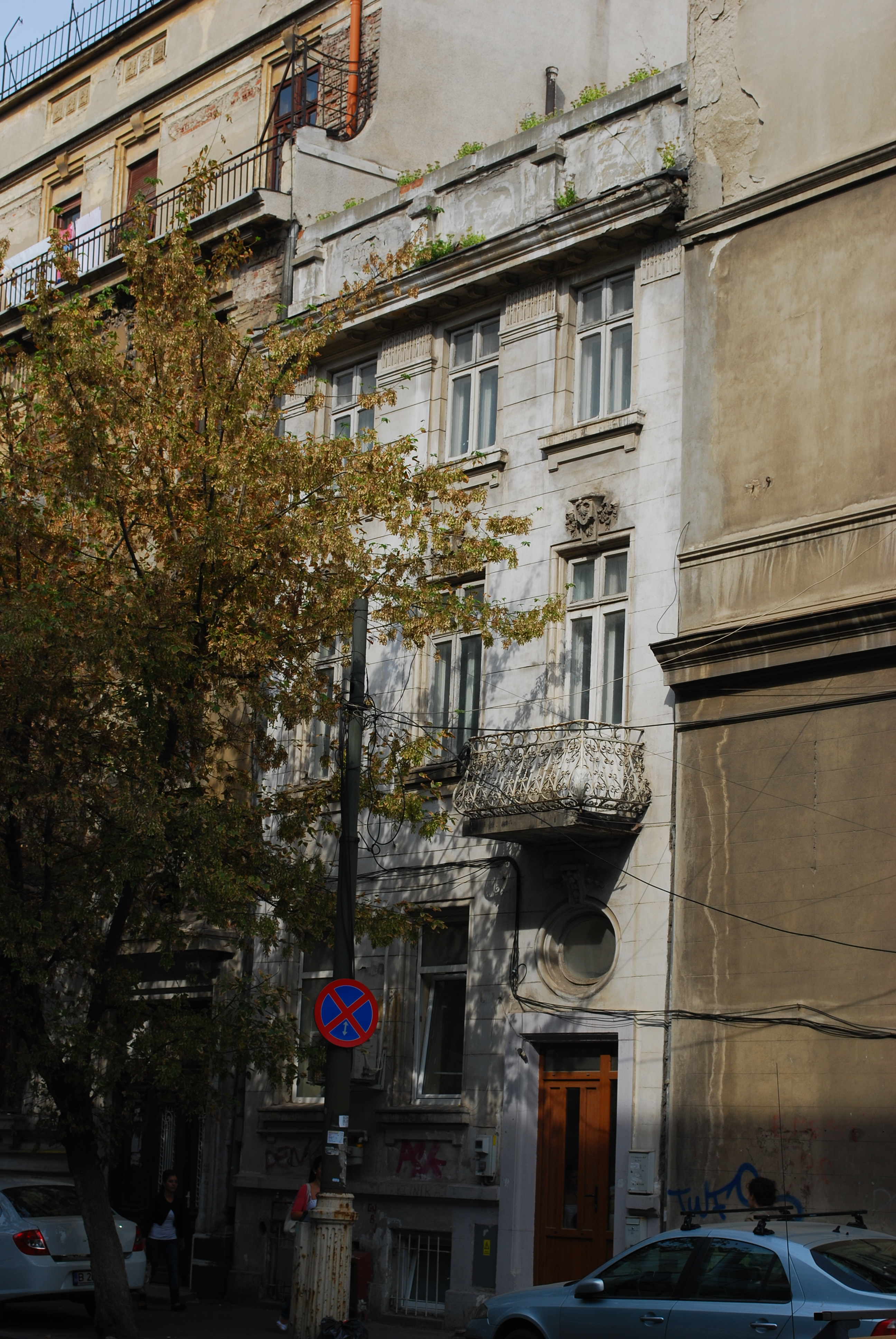 Historic building in Bucharest, Romania, on Hristo Botev street 15